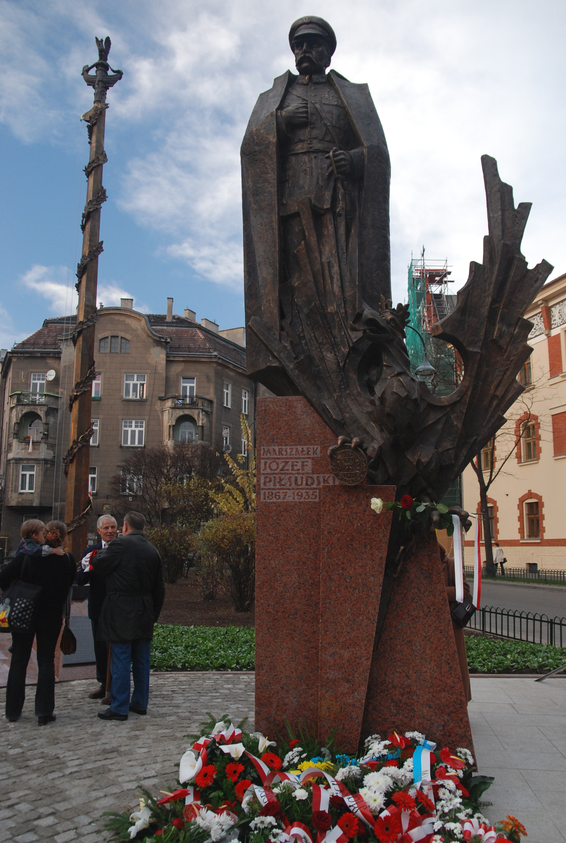 Józef Piłsudski monument, Krakow. Author: Czesław Dźwigaj